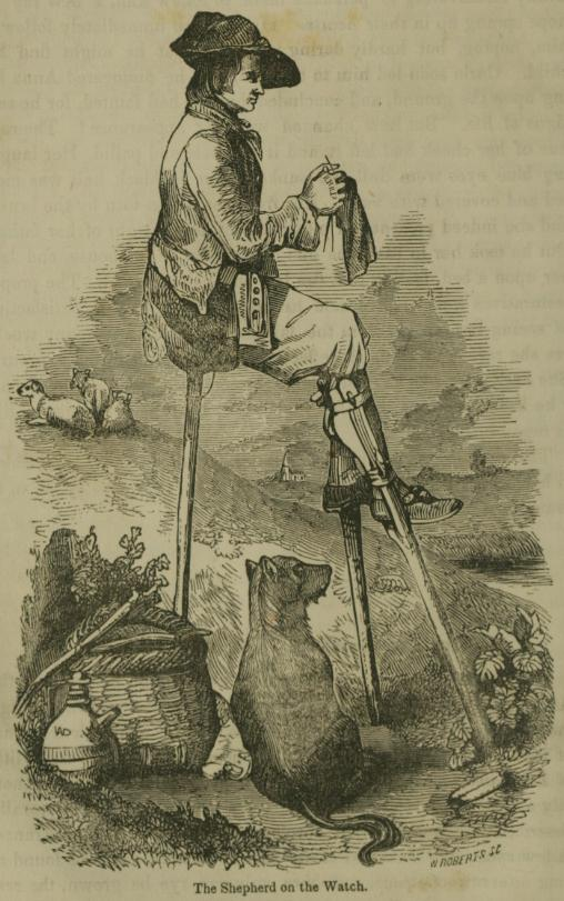 Shepherd sitting on raised stool and stilts. Book illustration, pen drawing